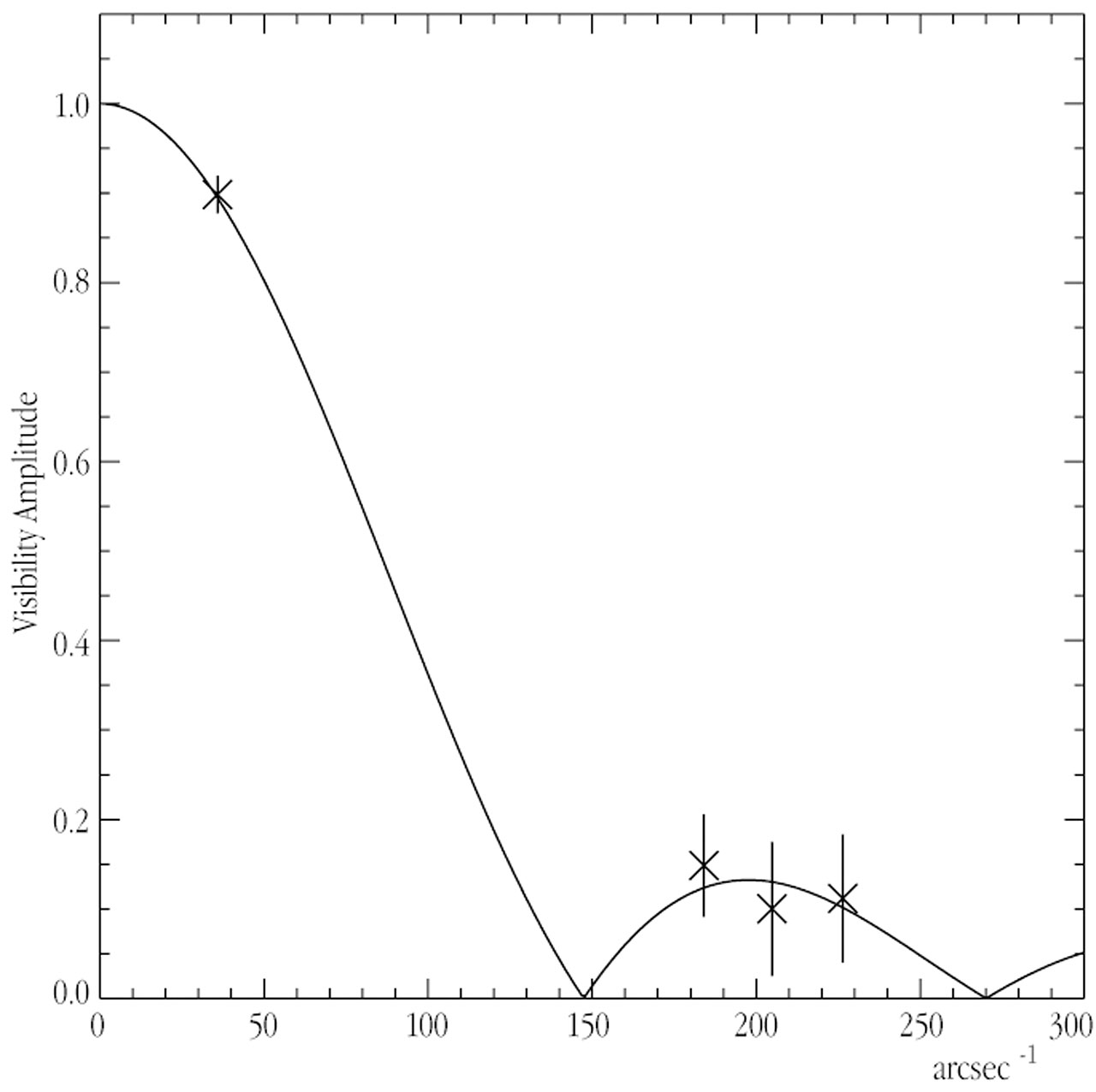 This chart shows the "visibility curve" for the red giant star Psi Phoenicis as measured on two nights (16 data sets; three points to the right) with two VLT UTs (ANTU + MELIPAL) for three different positions in the sky and on four nights with the 40-cm test siderostats on a shorter 16-m baseline (8 data sets; one point to the left); see the text below. From the fitted curve, a preliminary value of the angular diameter is 8.21 ± 0.02 milli-arcsec (mas).